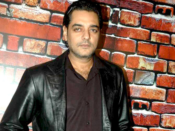 Chandrachur Singh at the launch of Meybuen United with a fashion show